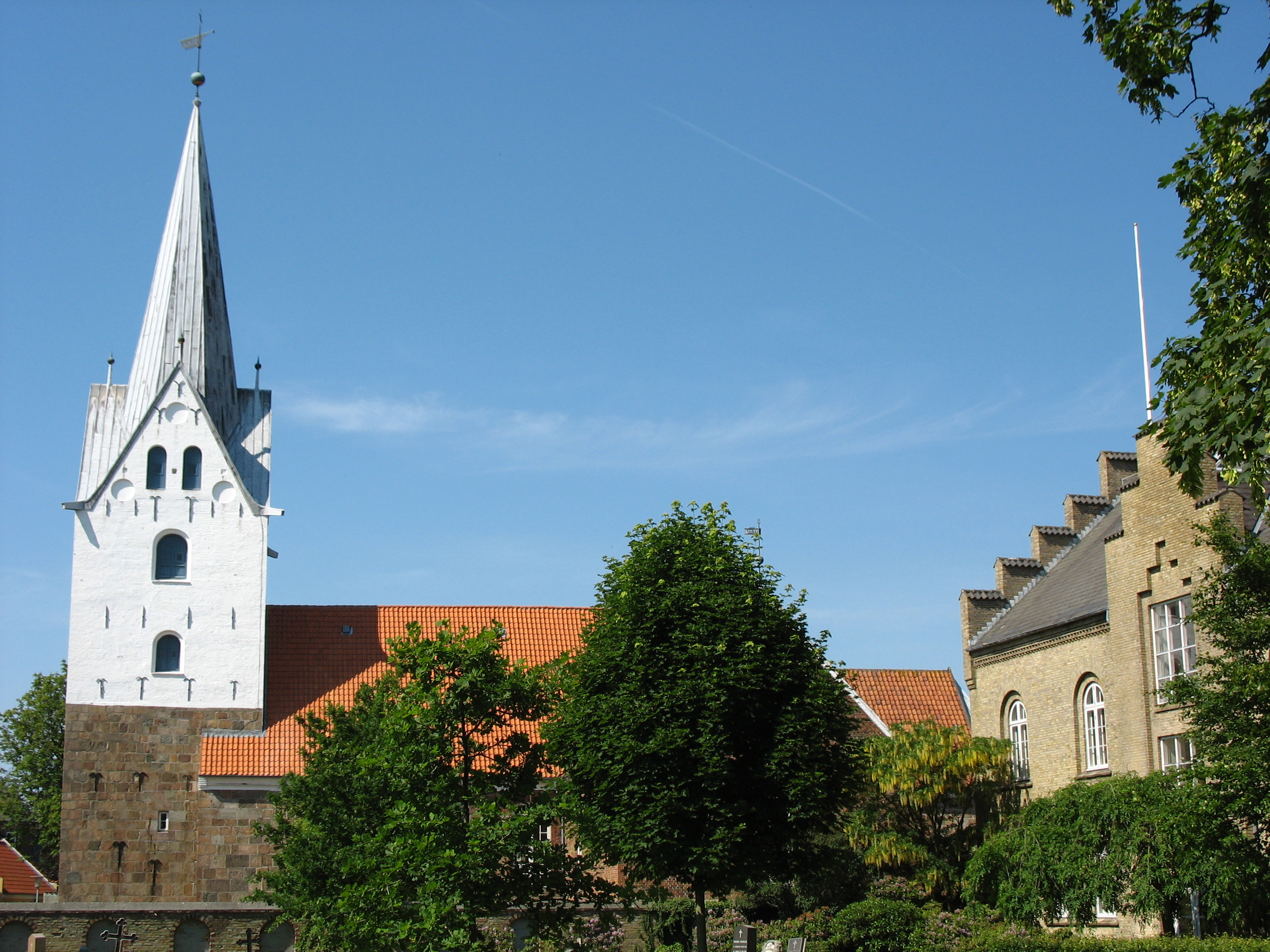 Varde's Church.